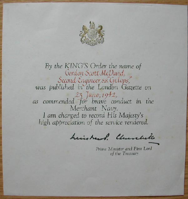 KCBcertificate